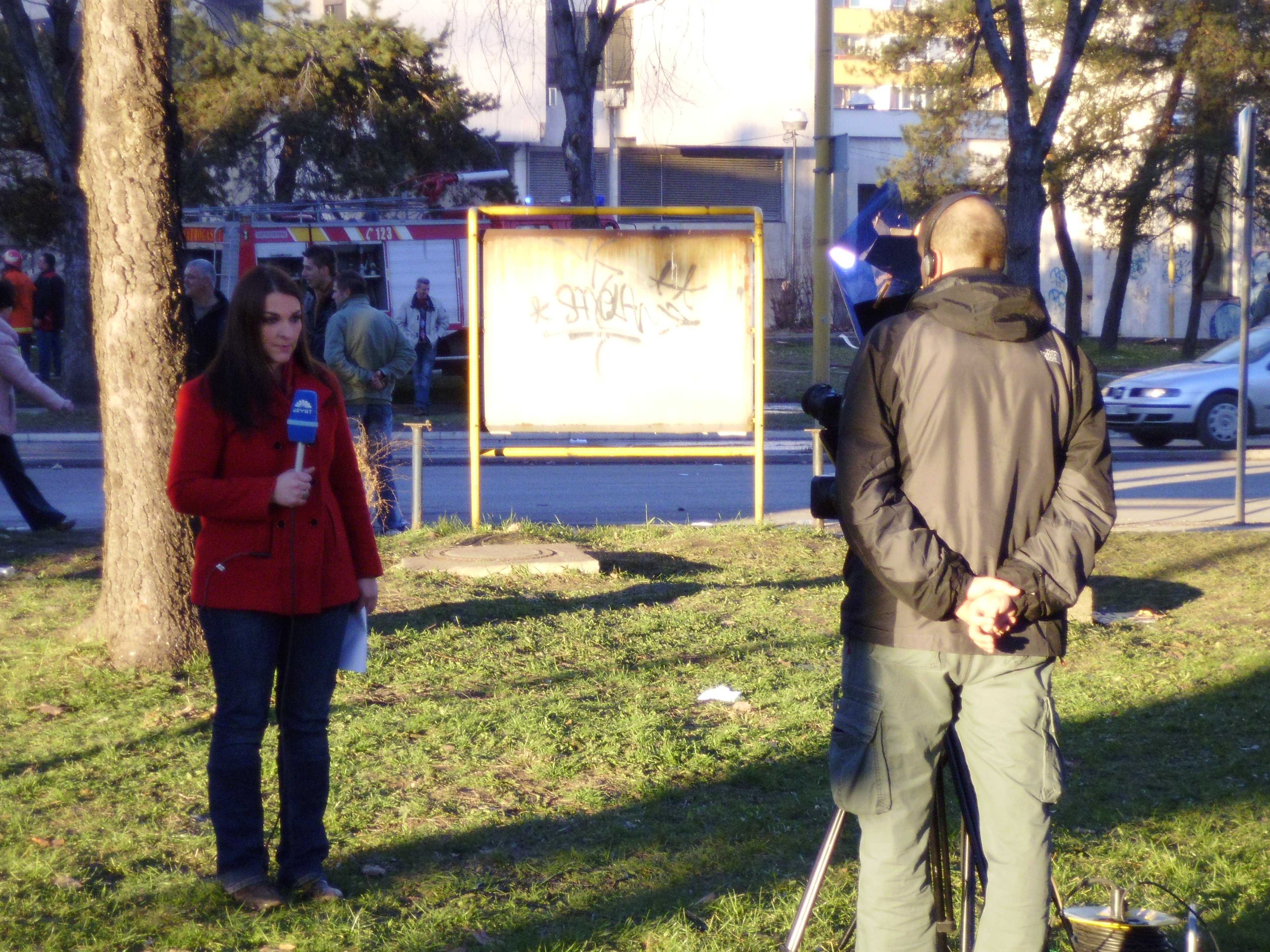 Reporters outside the burning Government Building of Tuzla Canton